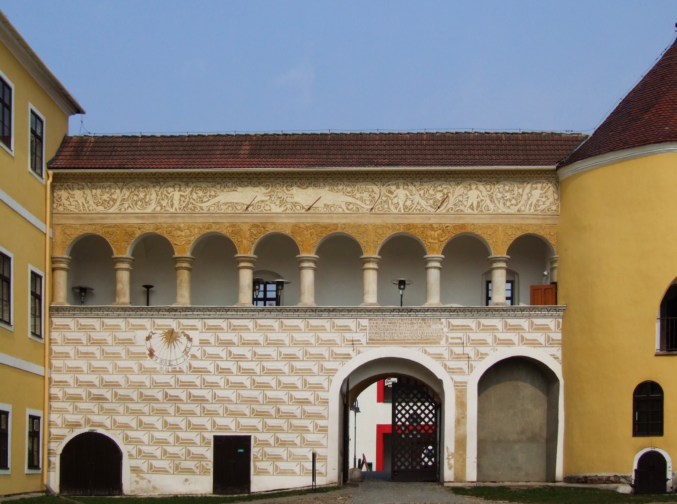 Castle in Krnov - entrance